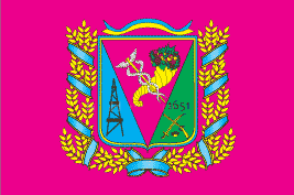 Flag of Krasnokutskyj district (Ukraine)